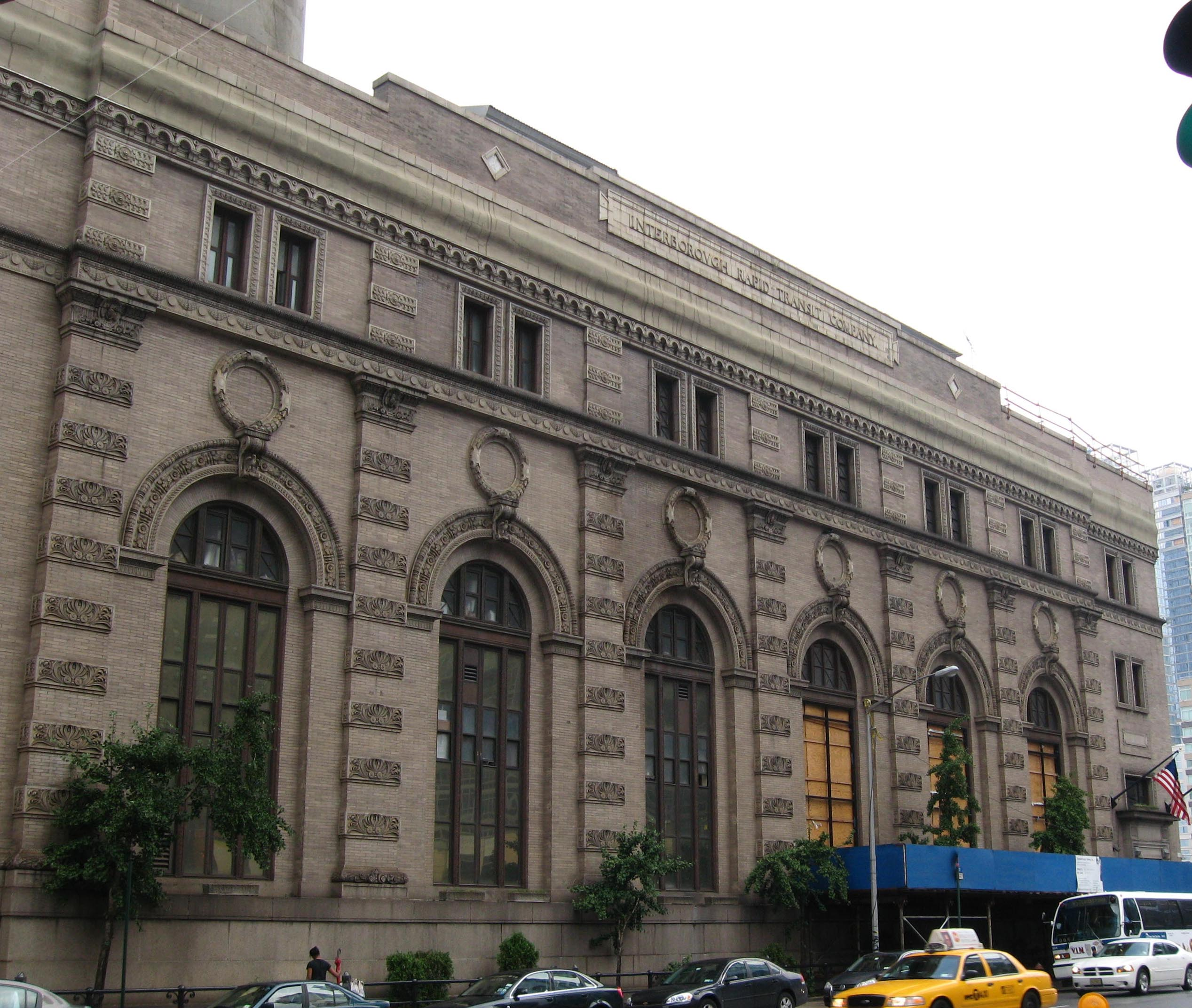 Looking up and north from 58th at former Interborough Rapid Transit Company power station at 11th Avenue and West 59th Street, Manhattan on a rainy late afternoon. Owned and operated by Con Edison since the middle 20th century. See also File:IRT 58 St power sunny jeh.jpg.